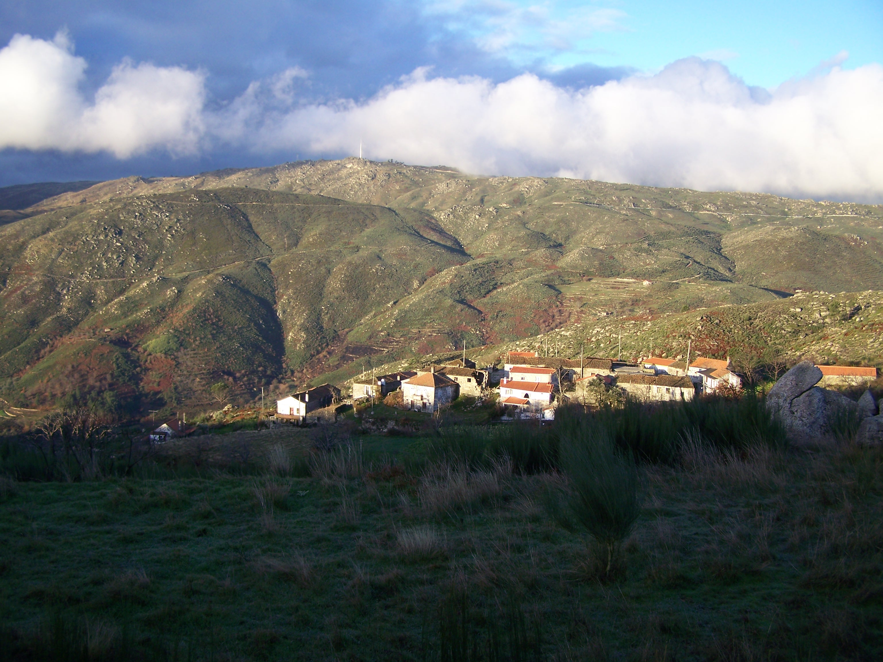 Albardeiros, Vale de Estrela, Guarda, Portugal. Serra da Estrela.